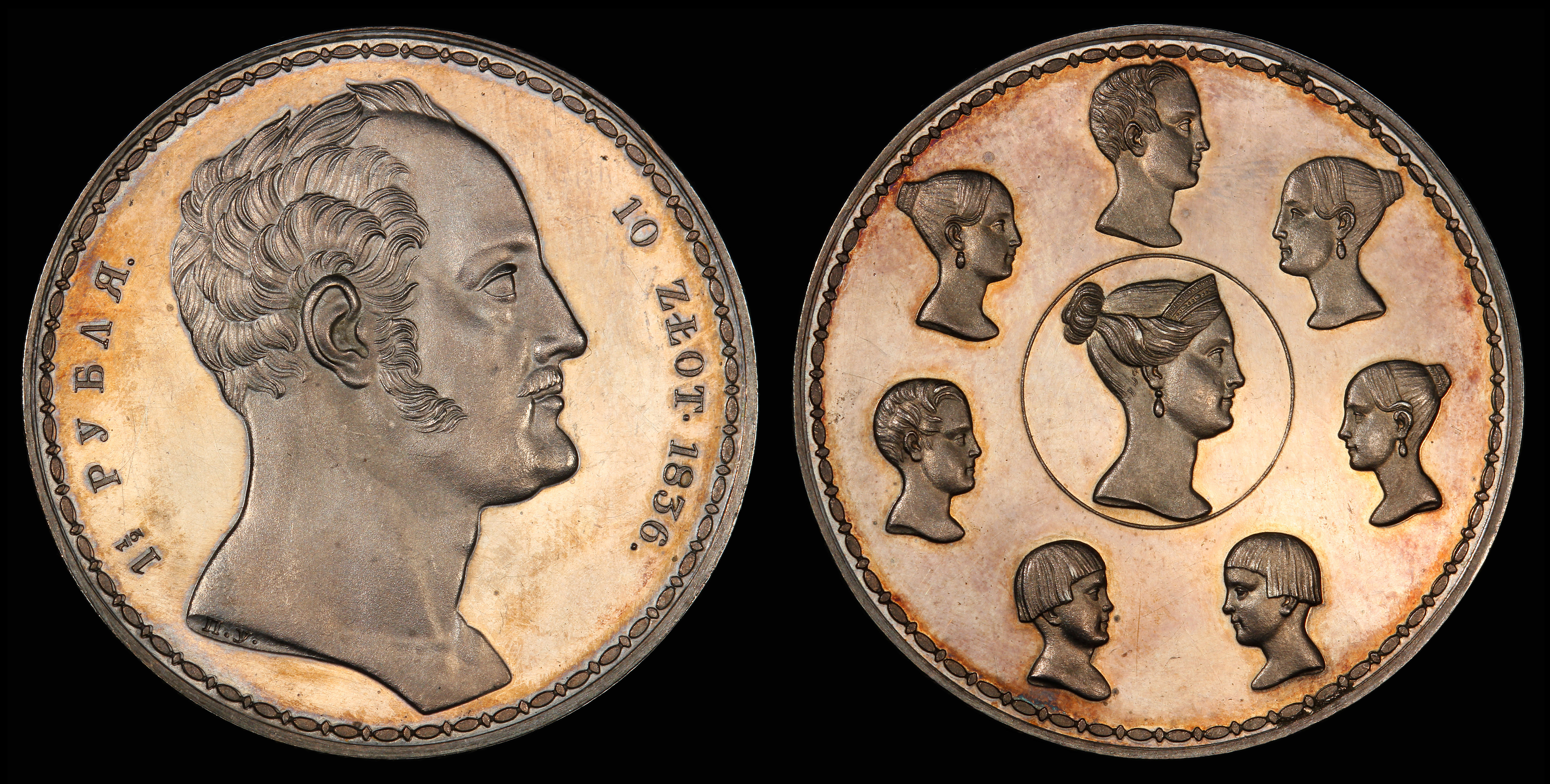 Russia, 1½ Rouble (1836), period restrike, depicting on the obverse Nicholas I, and on the reverse: Tsarina Alexandra Feodorovna in the center surrounded (clockwise from the top) by Alexander II as Tsarevich, Maria, Olga, Nicholas, Michael, Konstantin, and Alexandra